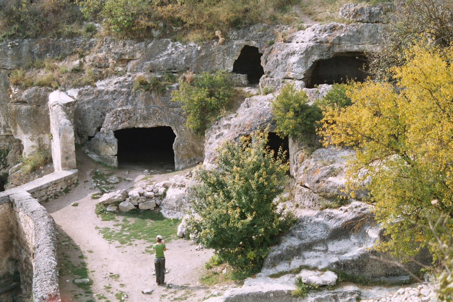 Cave in the ruins of the old city of Çufut Qale sometimes spelled as Chufut Kale, a historic fortress in Crimea, near Bakhchisaray. Its name is Crimean Tatar and Turkish for "Jewish Fortress" (çufut/çıfıt - Jew, qale/kale - fortress). Çufut Qale was historically a center for the Qaray (karaïts of crimea) community. In the Middle Ages the fortress was known as Qırq Yer (Place of Forty) and as Karaites to which sect the greater part of its inhabitants belong, Sela' ha-Yehudim (The Rock of the Jews).